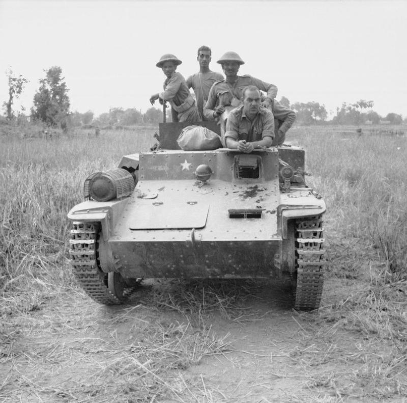 The British Army in Burma 1945 Men of the 6th Rajputana Rifles driving a Japanese armoured carrier "So-Da" M1938 (Type 98) captured near Singu, February 1945.